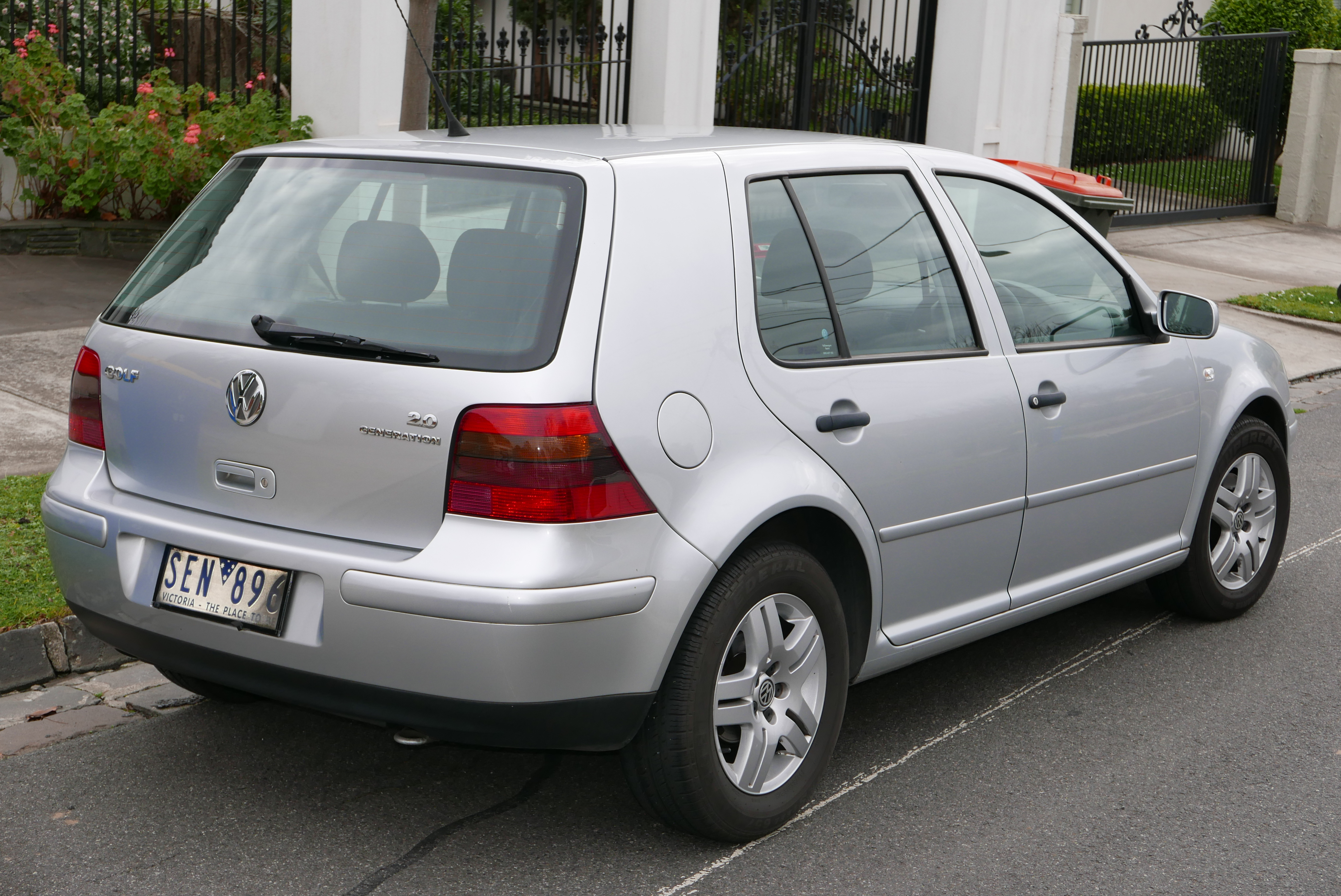 2003 Volkswagen Golf (1J MY03) Generation 2.0 5-door hatchback. Photographed in Kew, Victoria, Australia. Vehicle registration enquiry resultsJurisdictionVictoriaRegistrationSEN896Chassis codeWVWZZZ1JZ3W578507Engine codeAPK823573Compliance date2003-06Year of manufacture2003